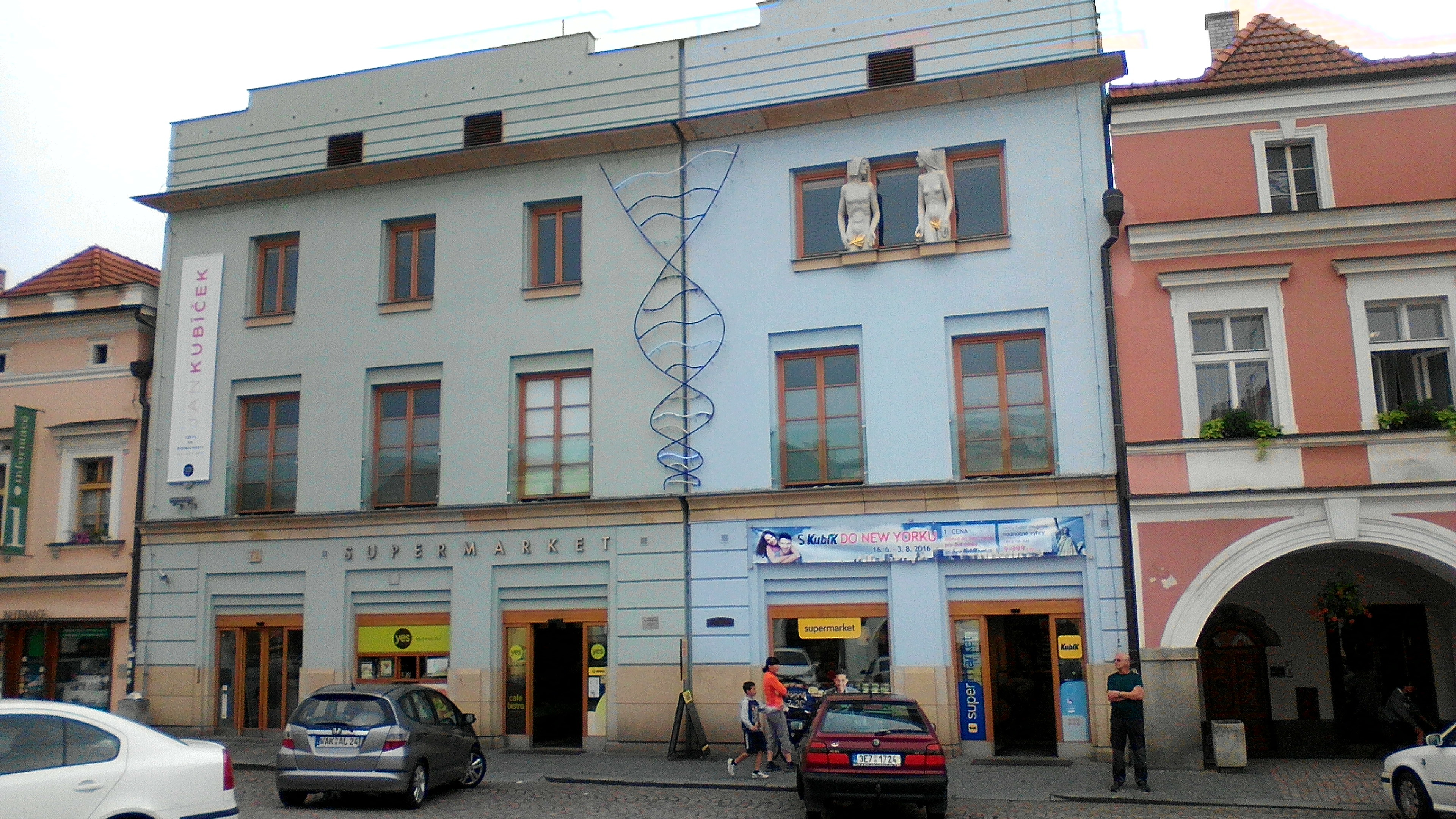 Photo of a sculpture DNA waterfall made of neon signs by Jiří David in 2012. It is at Galerie Miroslava Kubíka, Smetanovo náměstí square, Litomyšl. There are also two sculptures by Olbram Zoubek.